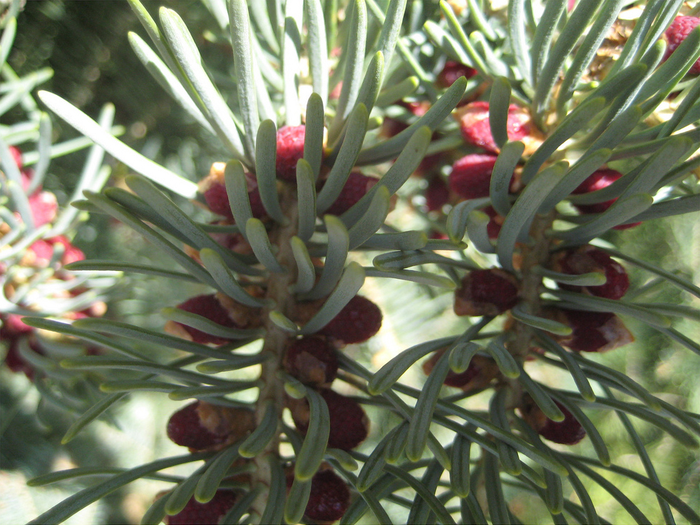 Abies concolor leaves and pollen cones. Cultivated.